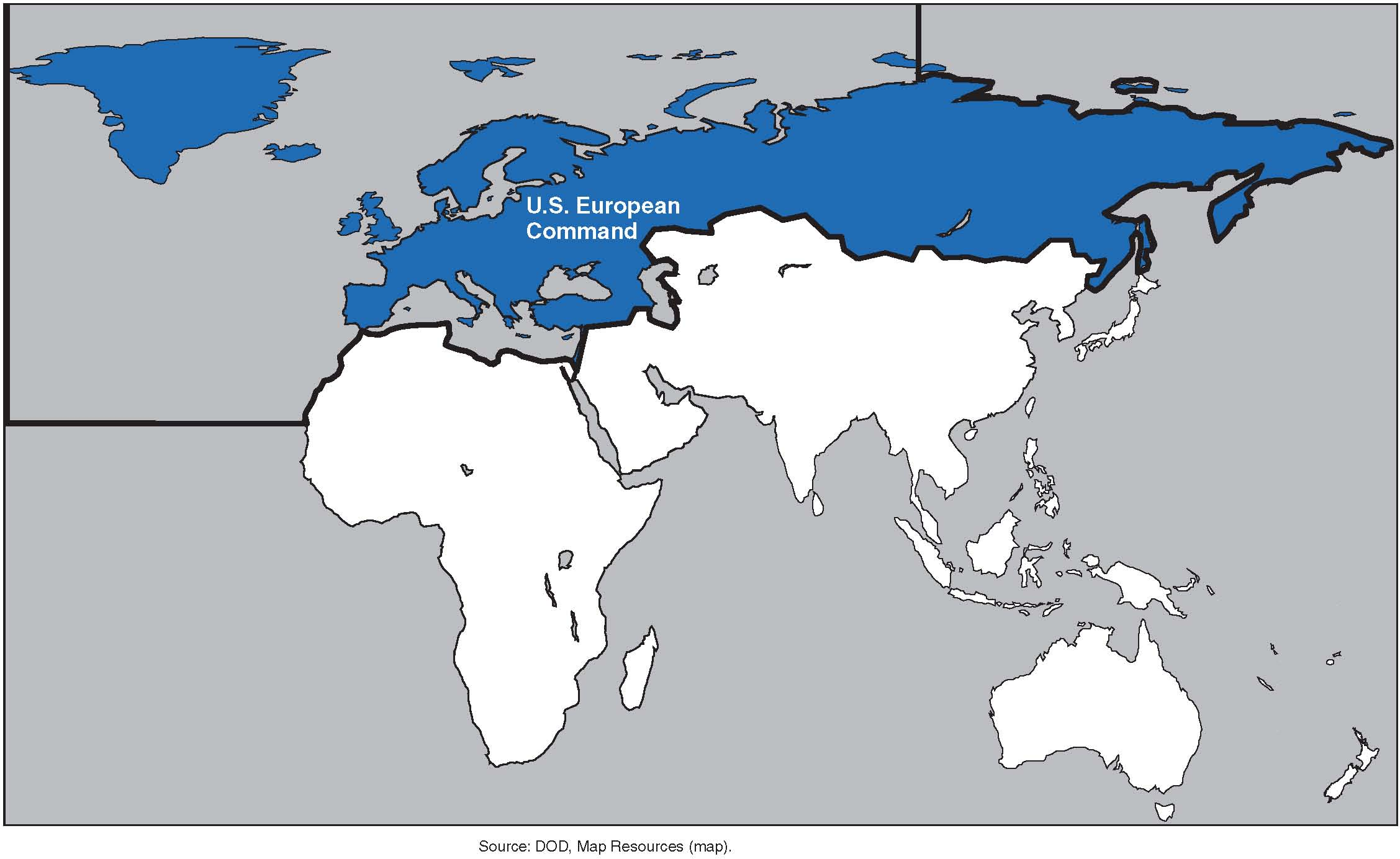 EUCOM Area of Responsibility excerpted from a U.S. Government Accountability Office report